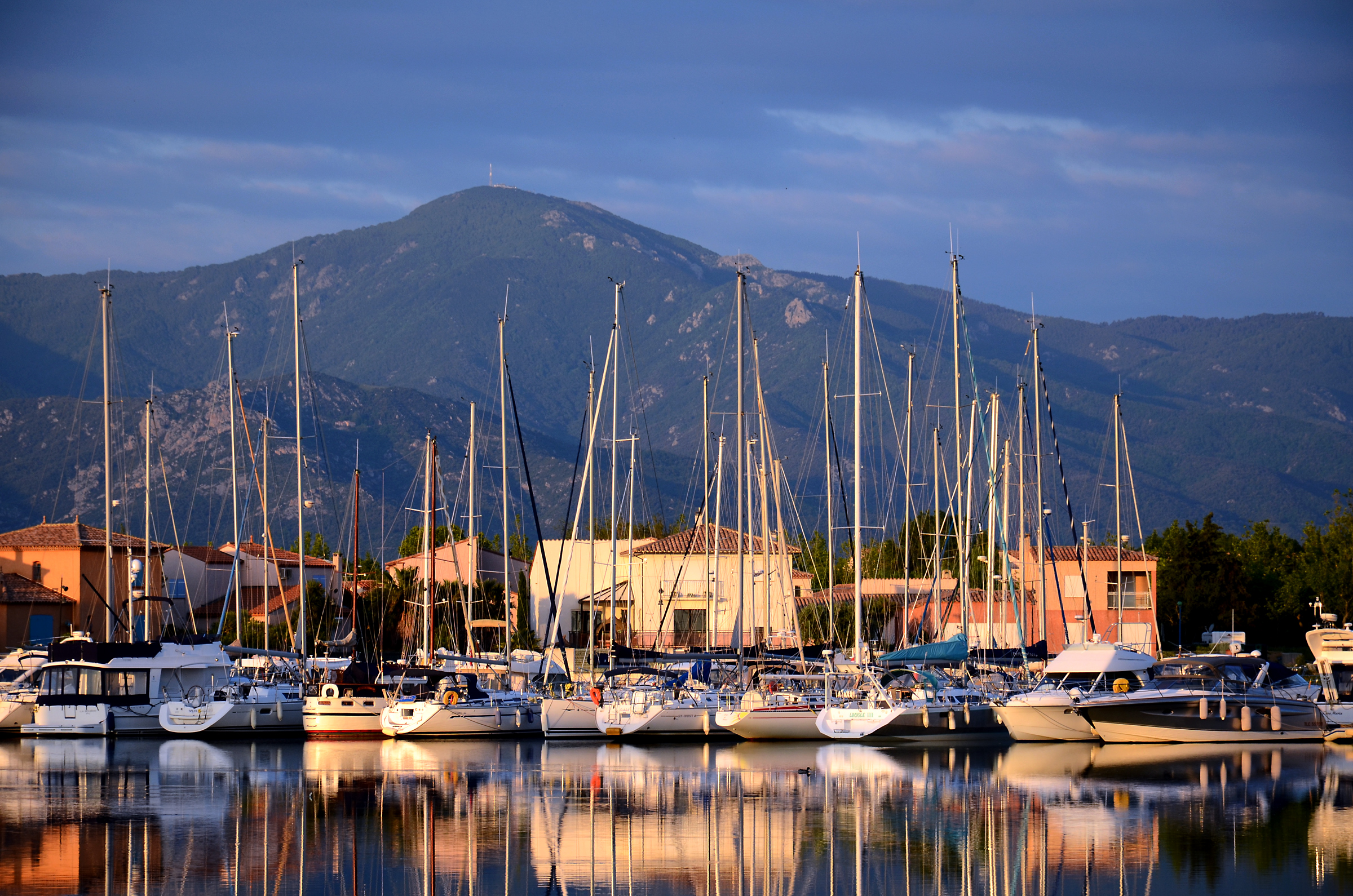 Saint-Cyprien (Pyrénées-Orientales)